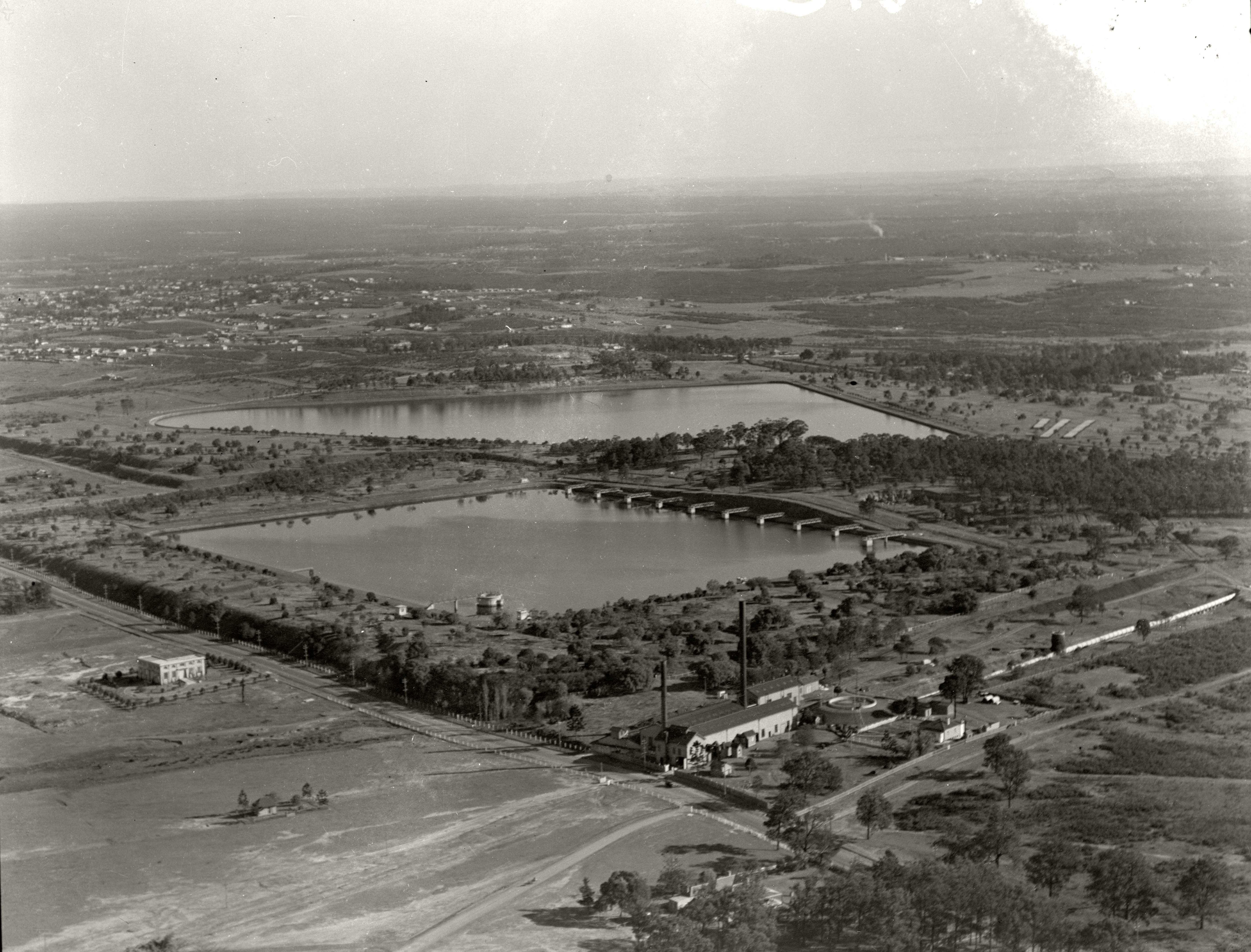 RAHS [Adastra Aerial Photography Collection]